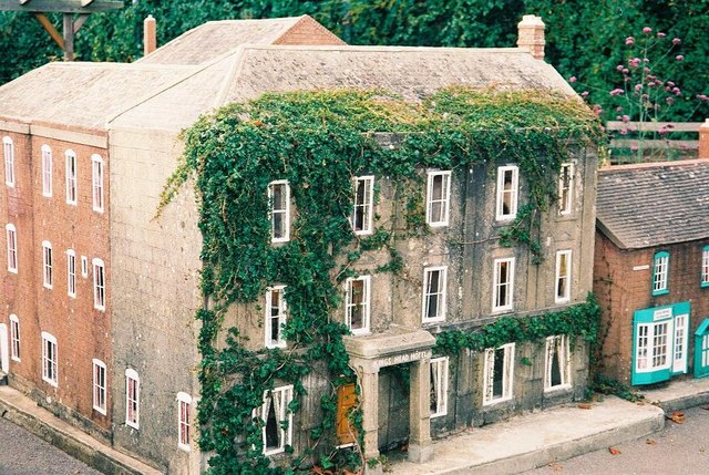 Wimborne model town: King’s Head Hotel The King's Head Hotel is on the corner of West Street and West Borough, faces The Square – the real one can be seen here 245.